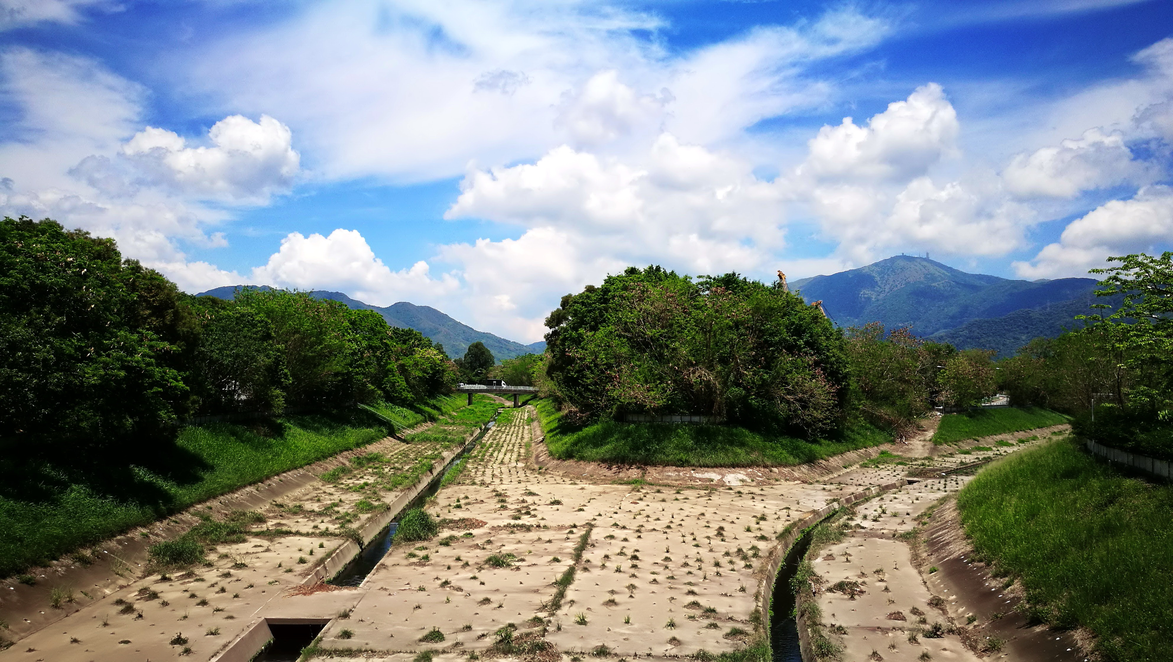 Kam Tin River near Kam Sheung Road Station, Kam Tin, Hong Kong.